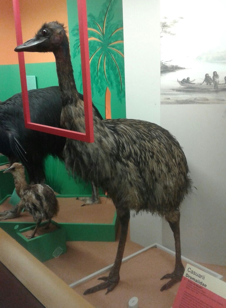 Kangaroo Island emu at the Muséum d'Histoire naturelle de Genève.